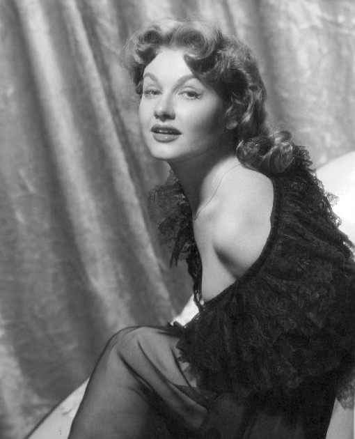 Photo of actress and stuntwoman Ann Robinson from a guest appearance on the television program Cheyenne.